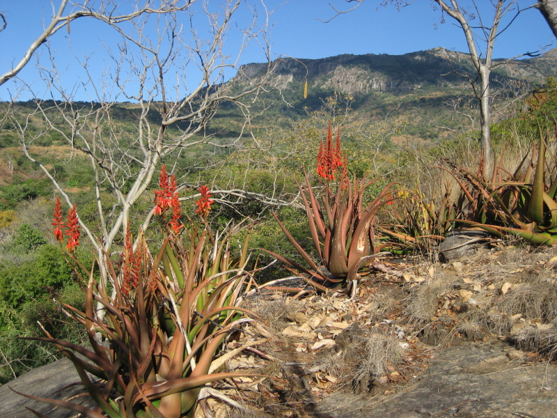 Aloe cryptopoda in the foothills of Mount Gorongosa, close to Gorongosa National Park in Sofala province of Mozambique, 1000 m.a.s.